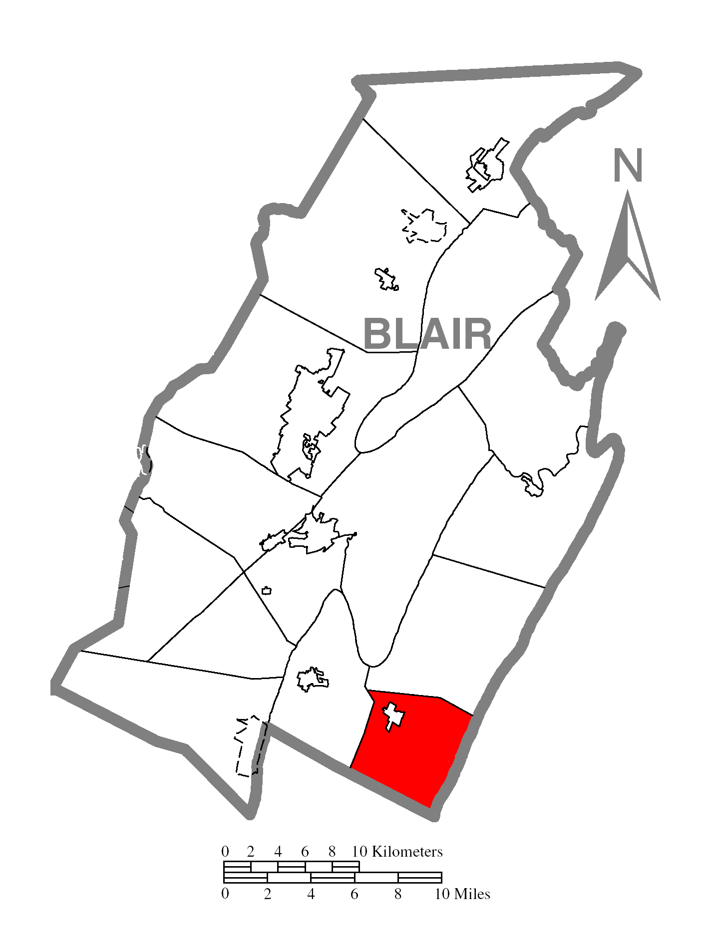 A map of Blair County showing North Woodbury Township, Pennsylvania (alternate) highlighted on the map.